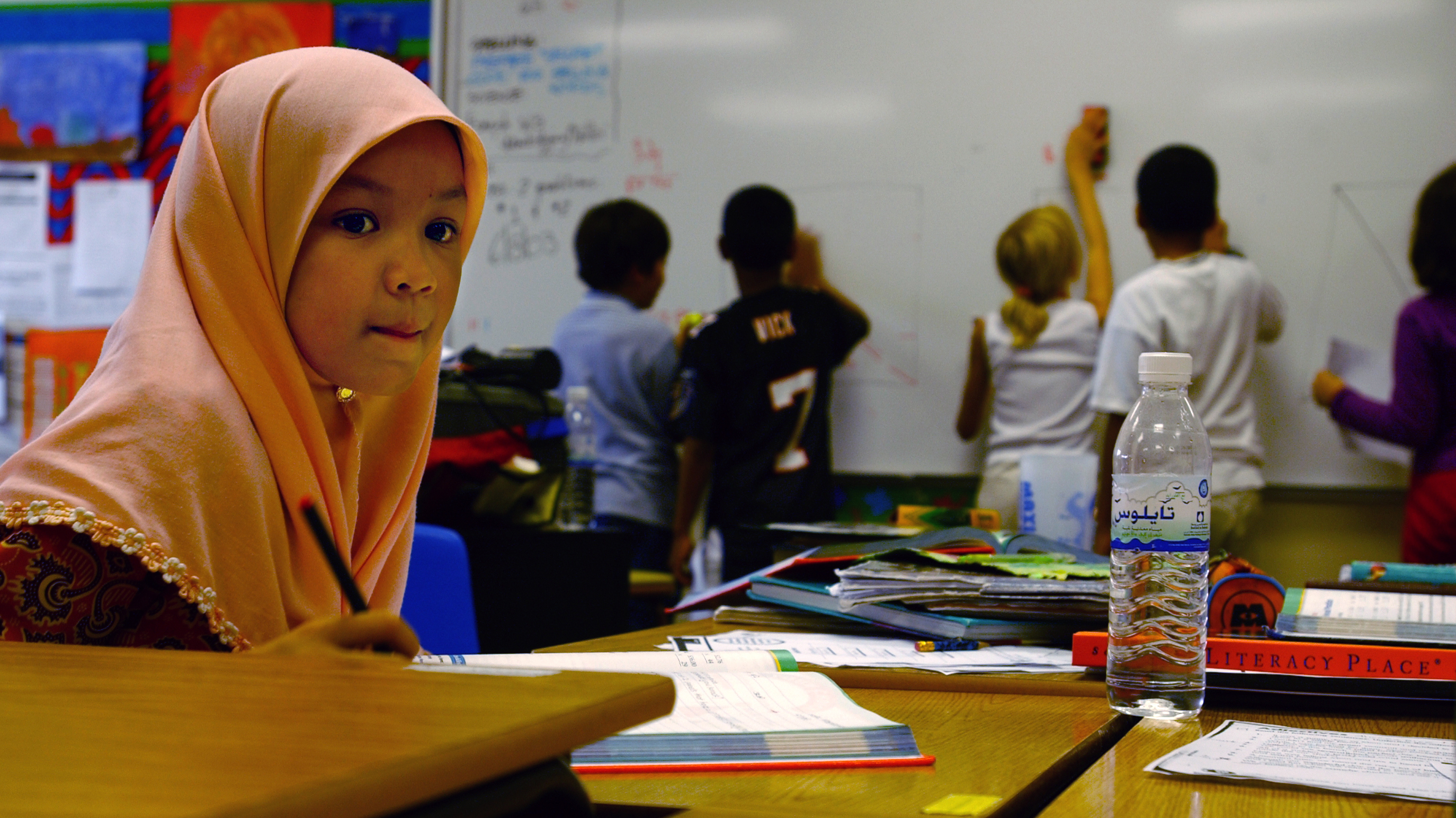 030901-N-6967M-064 Students in Bahrain learn as much about other cultures from students as they do from teachers, resulting in children who understand the world better than many people four times their age. (All Hands, September 2003, pg. 34) Photo by PH1 Shane T. McCoy . (RELEASED)